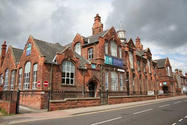 Waterfront Enterprise Centre Small businesses and a thriving enterprise centre in a former school on Lea Road